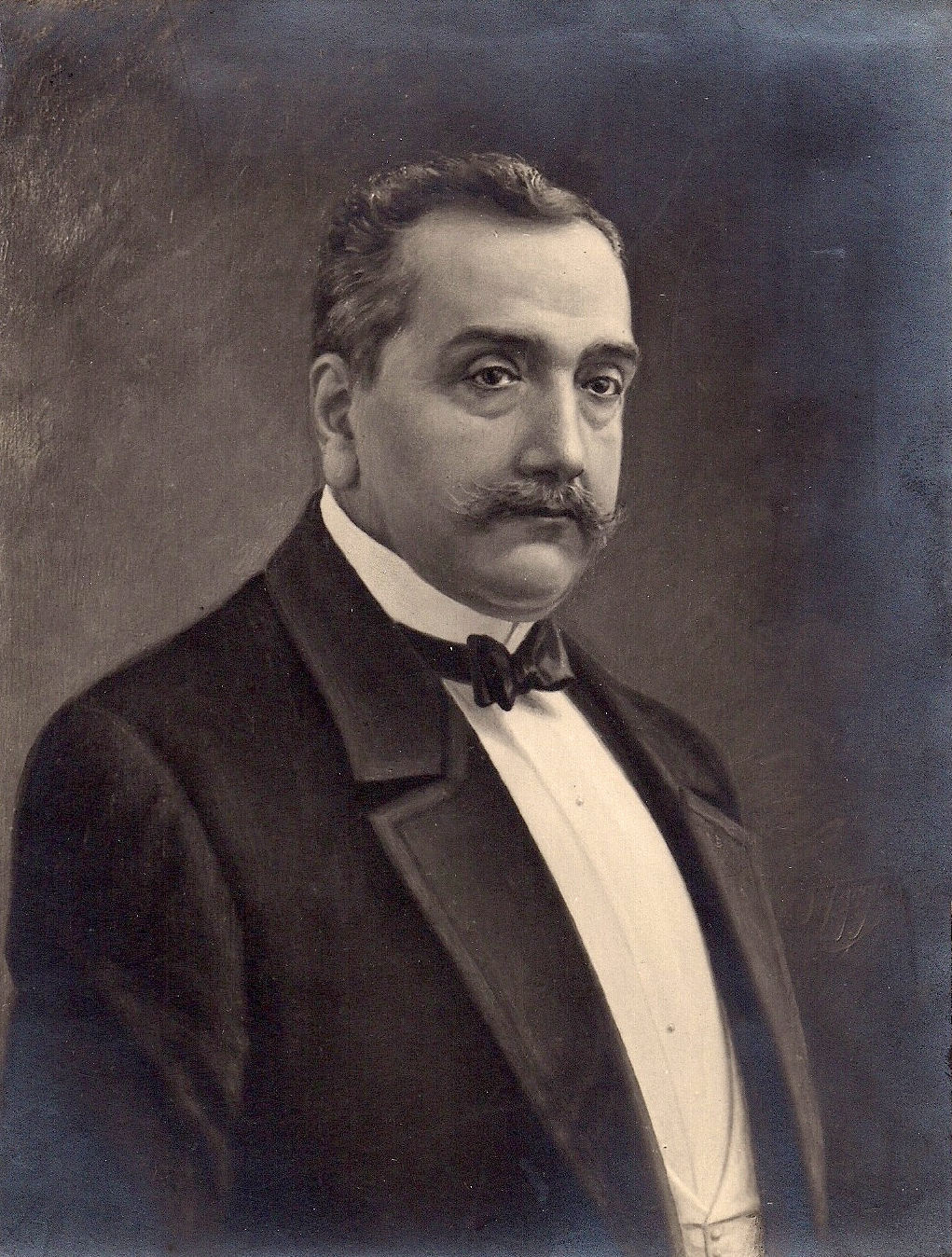 Portrait of Ignacio Girona y Targa, circa 1900